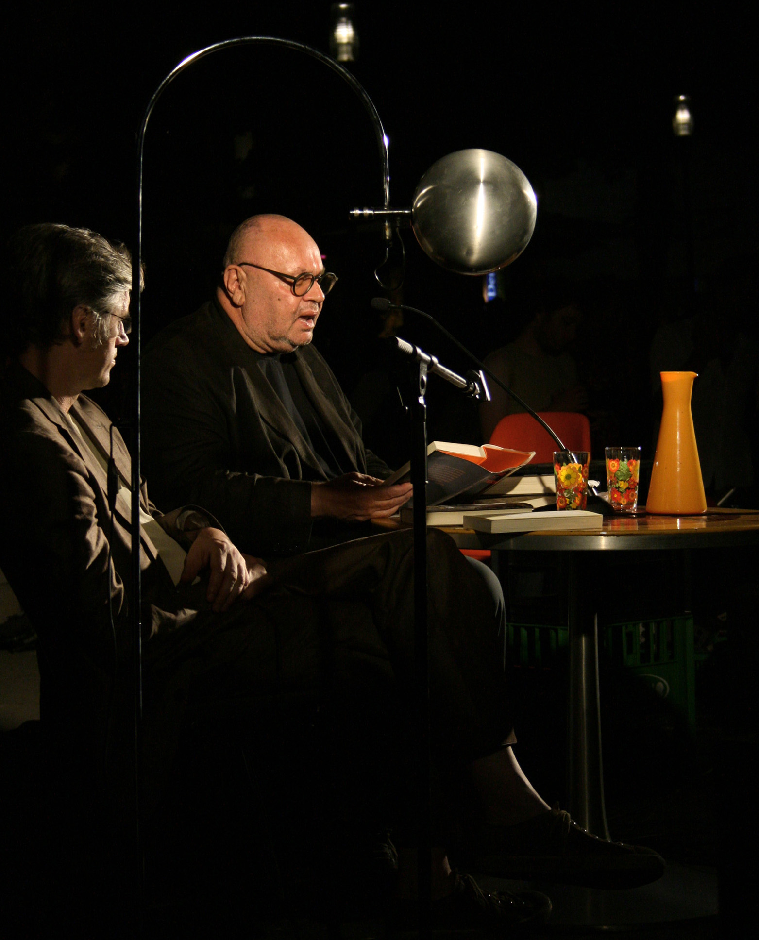 Austrian writer Franz Schuh and journalist Claus Philipp; reading at the literary festival O-Töne at the MuseumsQuartier in Vienna, Austria.